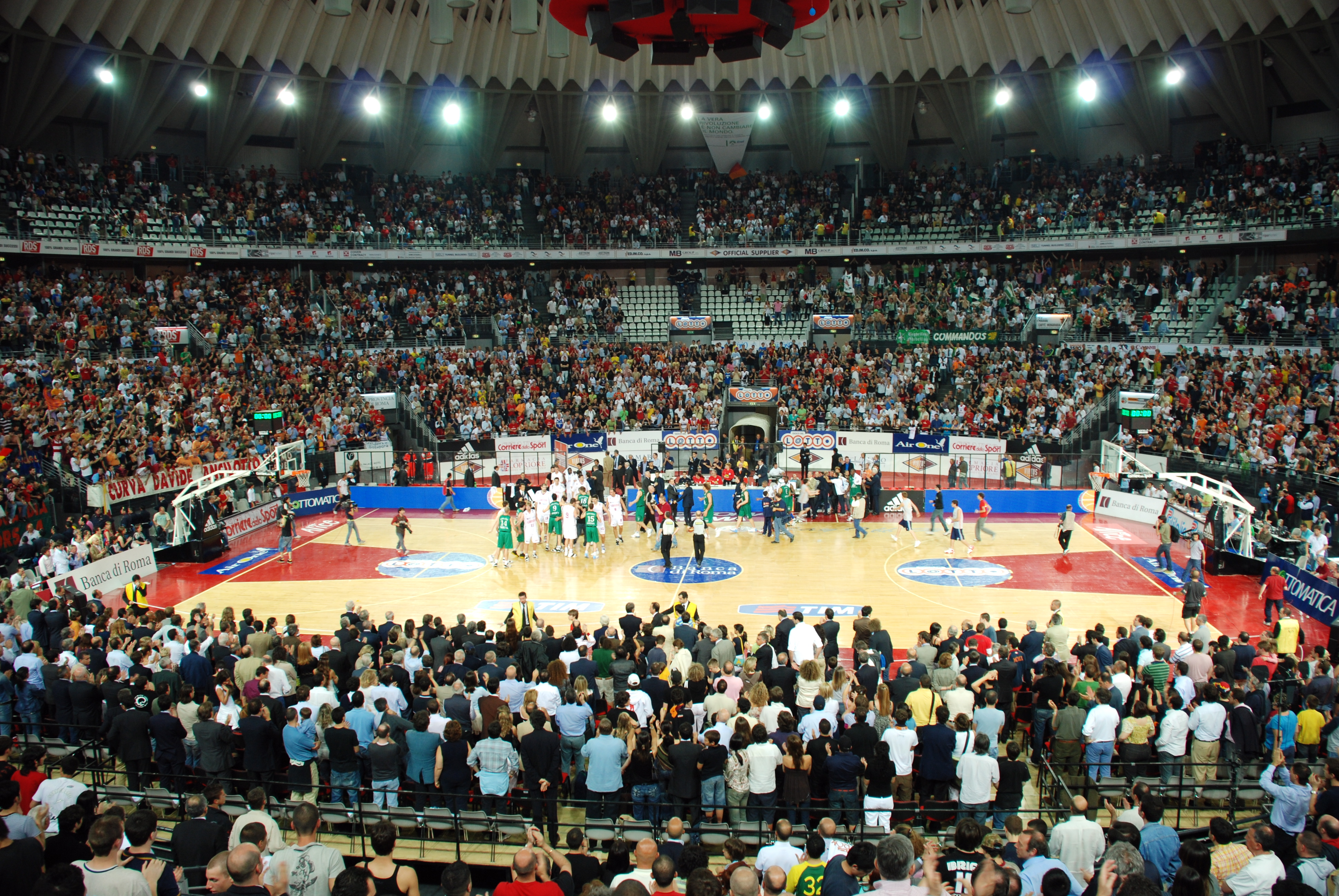 PalaLottomatica, fans of the Pallacanestro Virtus Roma team